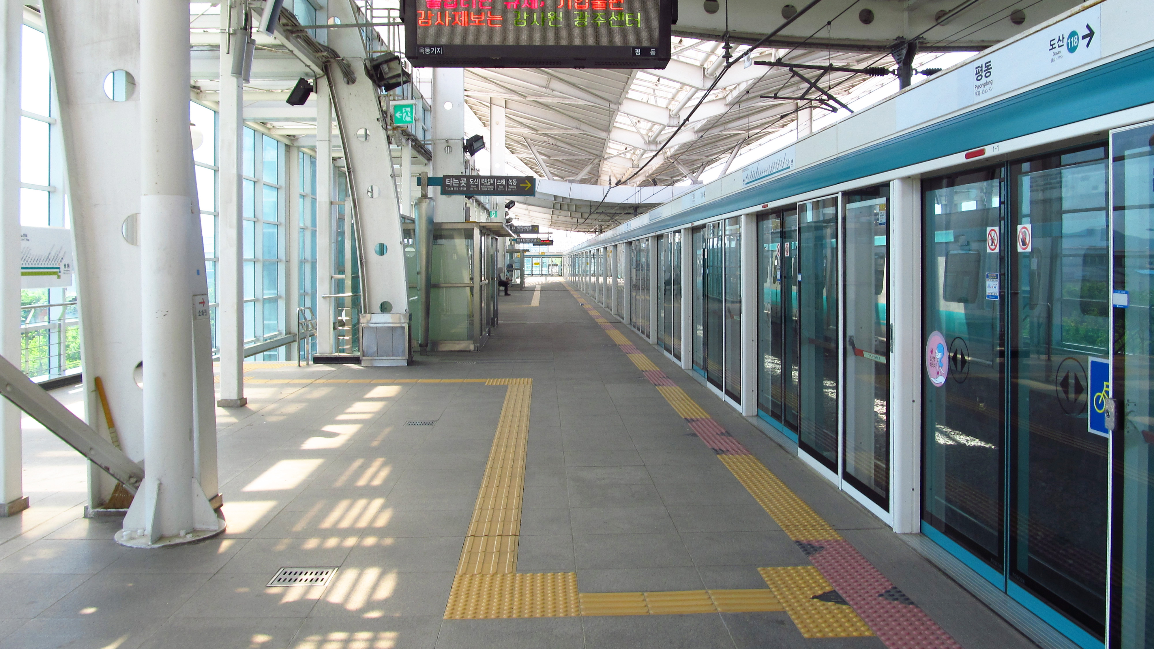 The platform at Pyeongdong Station on Gwangju Metro Line 1 in Gwangsan-gu, Gwangju, Republic of Korea(South Korea)